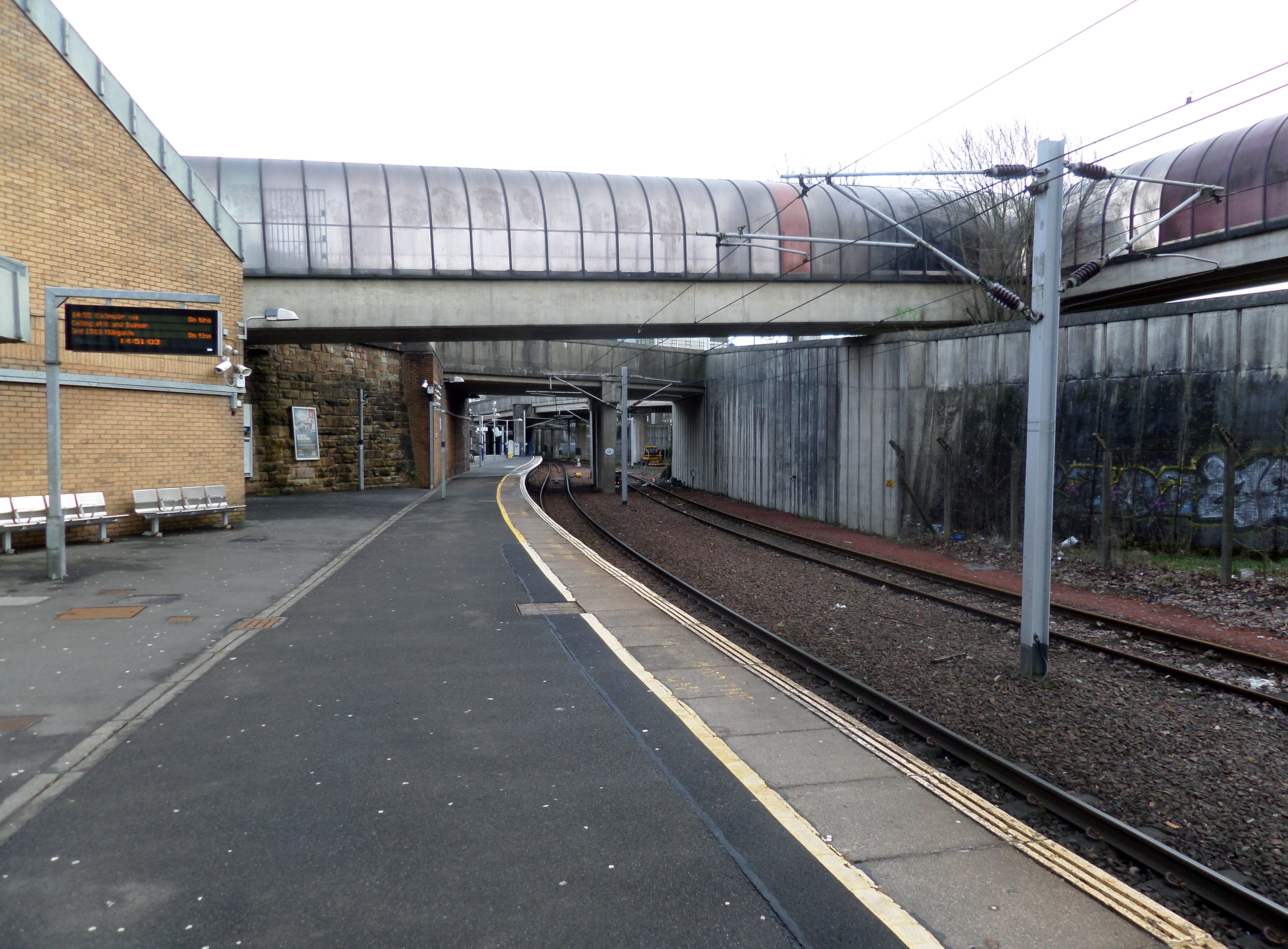 Exhibition Centre railway station - view towards Anderston. Previously named Finnieston and also Stobcross.